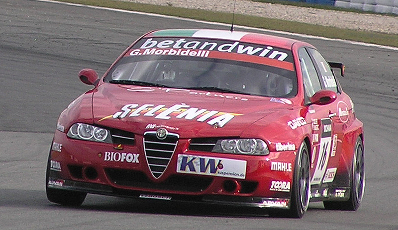 World Touring Car Championship 2006: Gianni Morbidelli (N. Technology) - Alfa Romeo 156